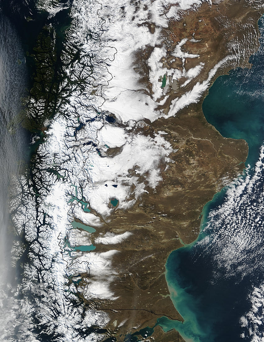 Snow runs down the spine of the Andes Mountains along the southern tip of South America. Chile is on the left, and Argentina is on the right. The water cutting across the continent in the bottom center of the image is the Strait of Magellan, once the only safe route between the Atlantic and the Pacific Oceans. Along the coast of Argentina, waters of the Atlantic Ocean are tinted green with sediment.